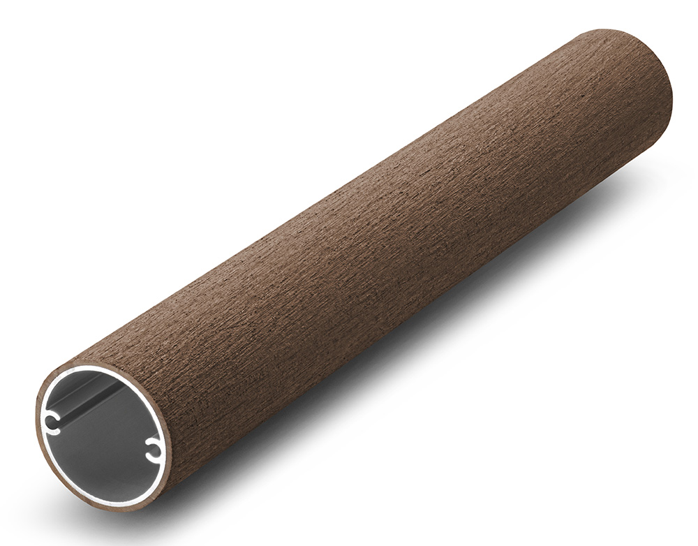 Wood hybrid profile Rondo Geolam (WHS) for façade & louvers